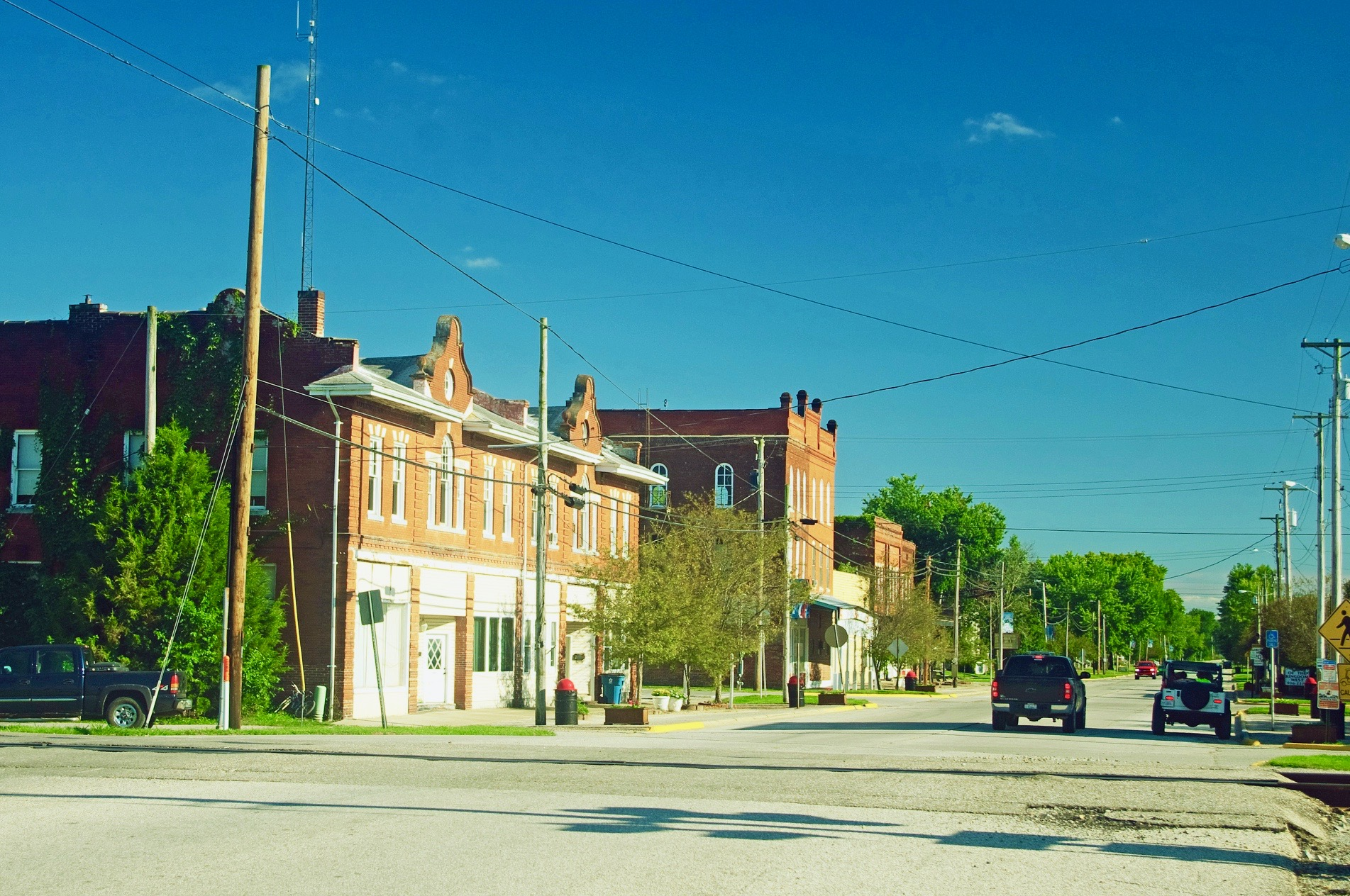 Buildings along Christy Avenue in Sumner, Illinois, United States.